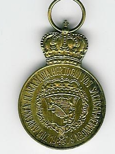 The reverse of commemorative medal oon Georg III (Saxe-Meiningen), issued in 1978